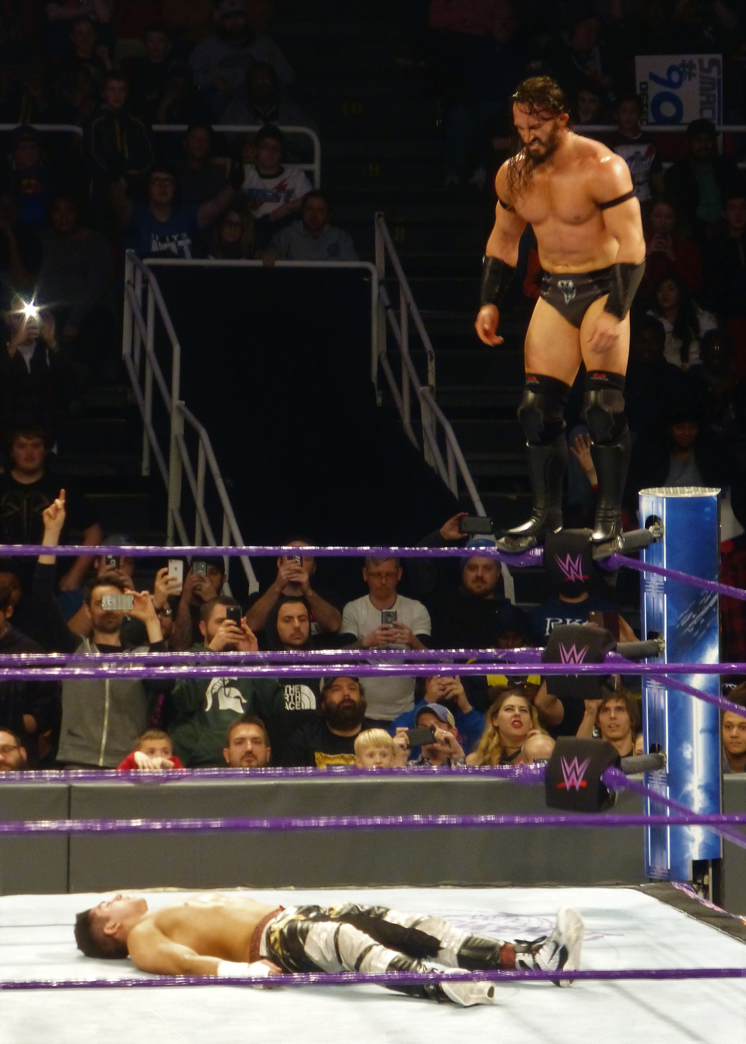 Neville from the top rope vs TJ Perkins